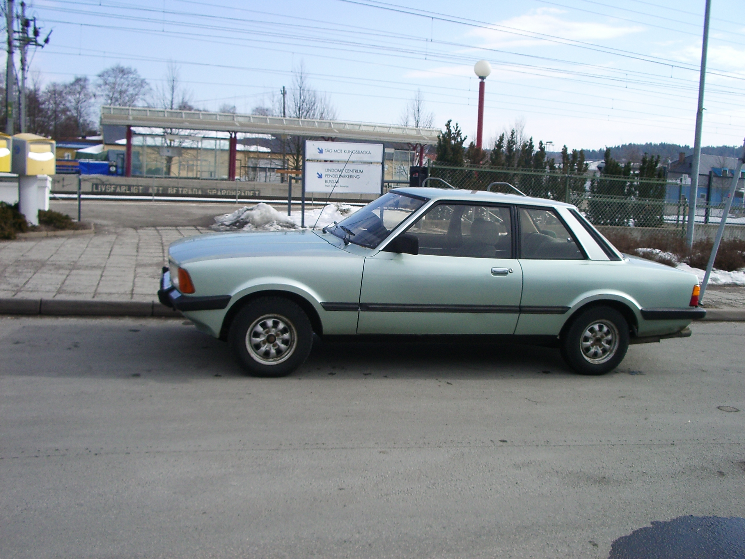 Ford Taunus 1982:a